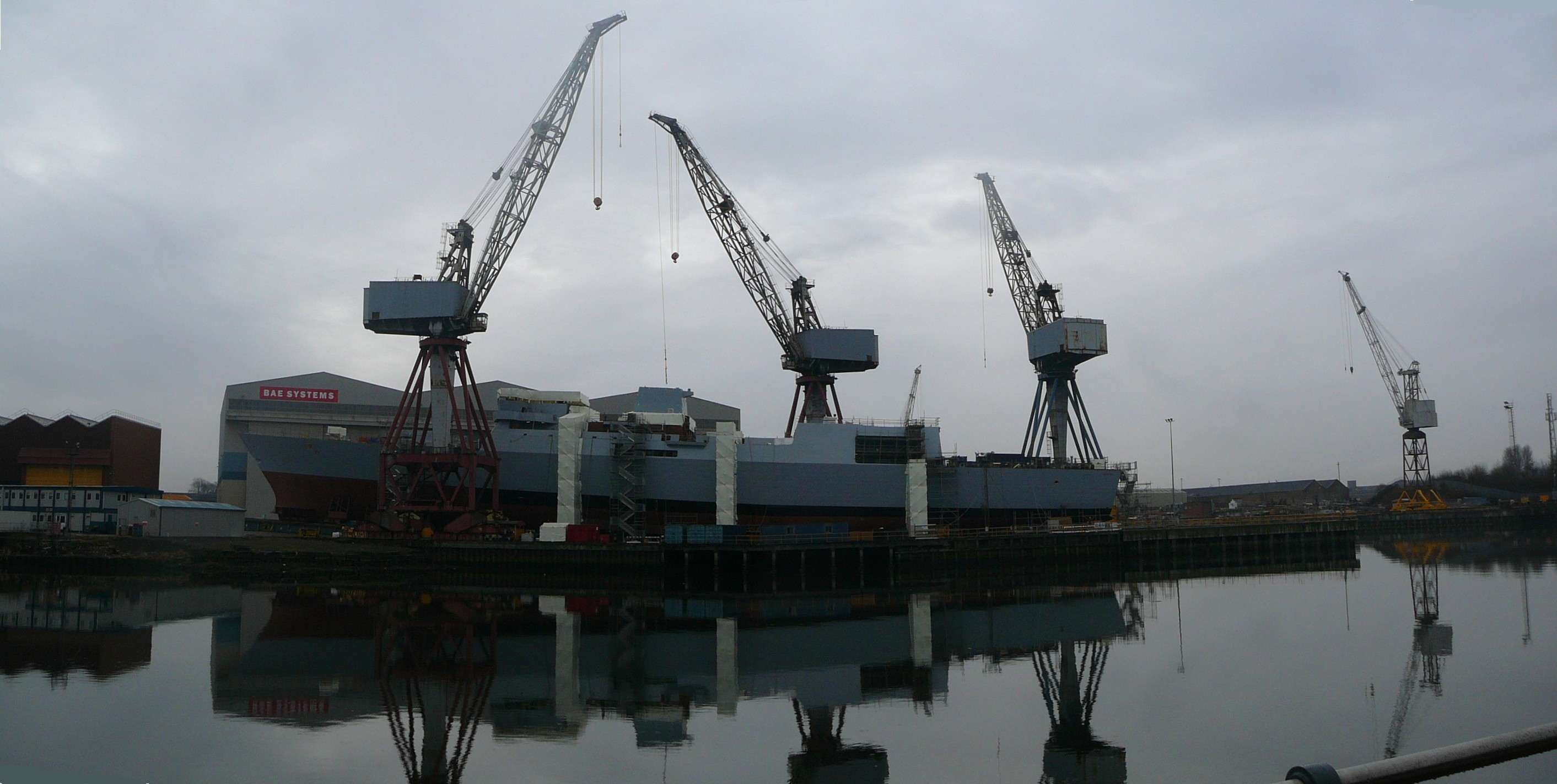 Type 45 Destroyer at BAE System Shipyard (Govan)